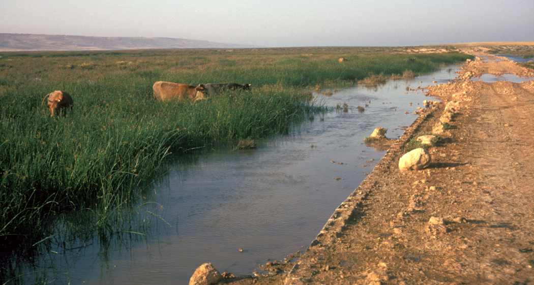 Algerian wetland : view of the Macta marshes.